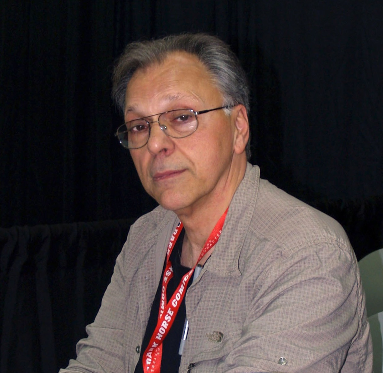 Comics creator Howard Chaykin on Saturday, June 14, 2014, Day 1 of Special Edition NYC, a comic book convention at the Jacob K. Javits Convention Center in Manhattan. This photo was created by Luigi Novi. It is not in the public domain, and use of this file outside of the licensing terms is a copyright violation.